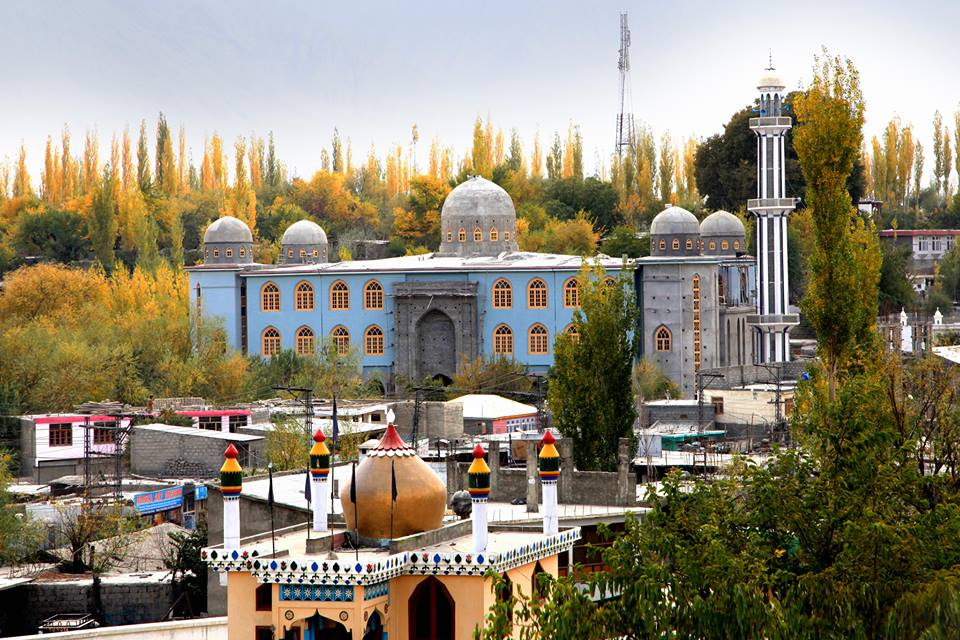 this is one of the my best sorts..... This is a photo of a monument in Pakistan identified as the GB-24